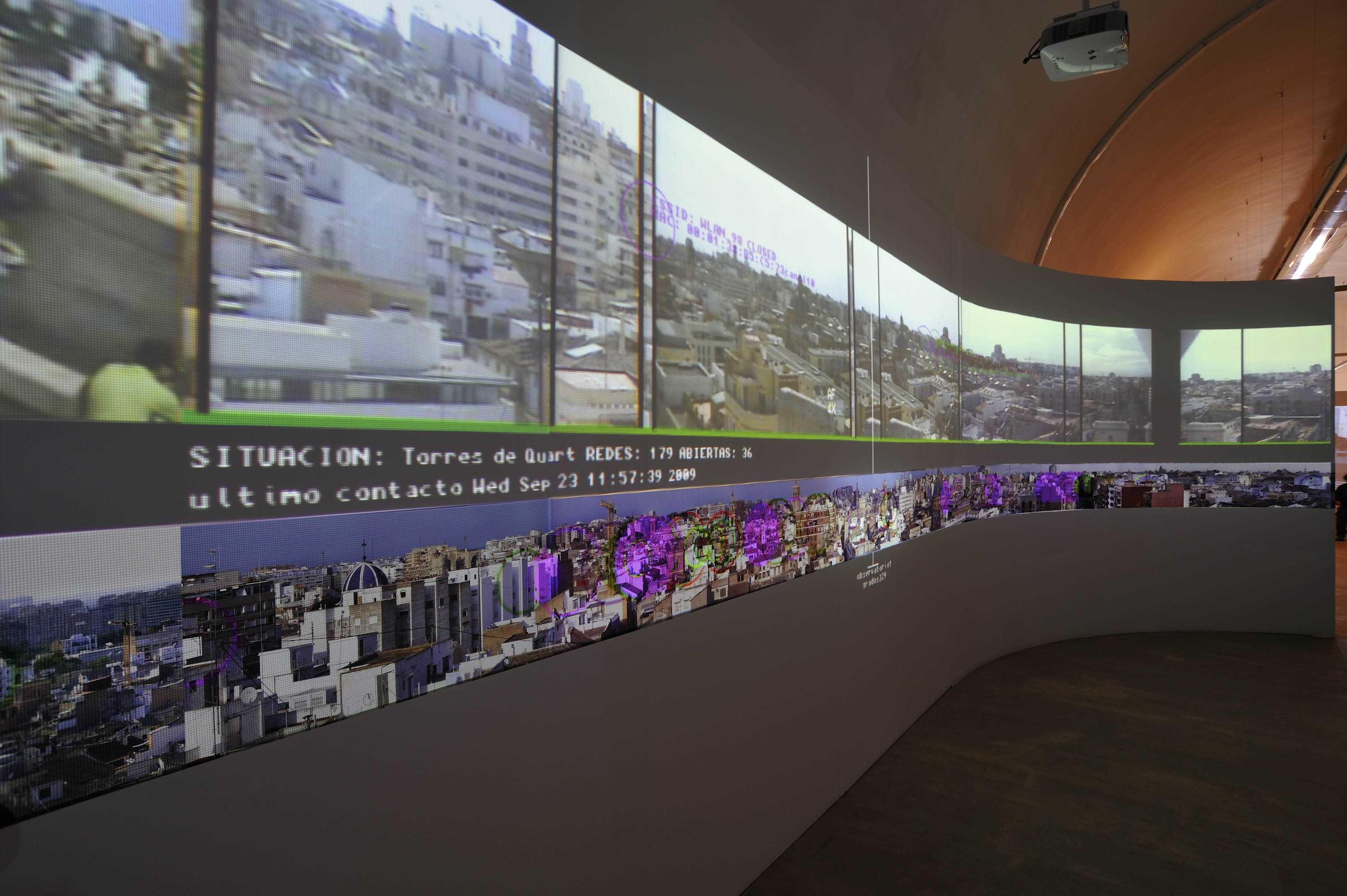 Sala Parpalló: Observatorio